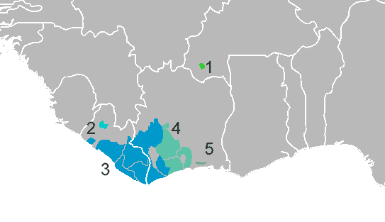 Main Kru languages: Seme (Siamou) Kuwaa Western Kru languages Eastern Kru languages Aizi